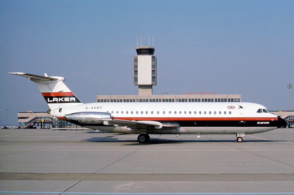 Laker Airways British Aerospace BAC-111-320AZ One-Eleven G-AVBY at EuroAirport